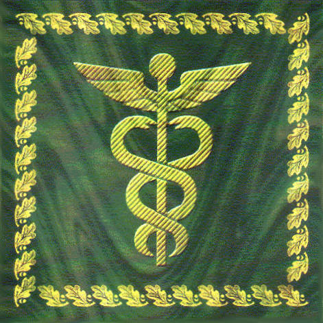 Standard of the Head of the State Taxation Administration of Ukraine